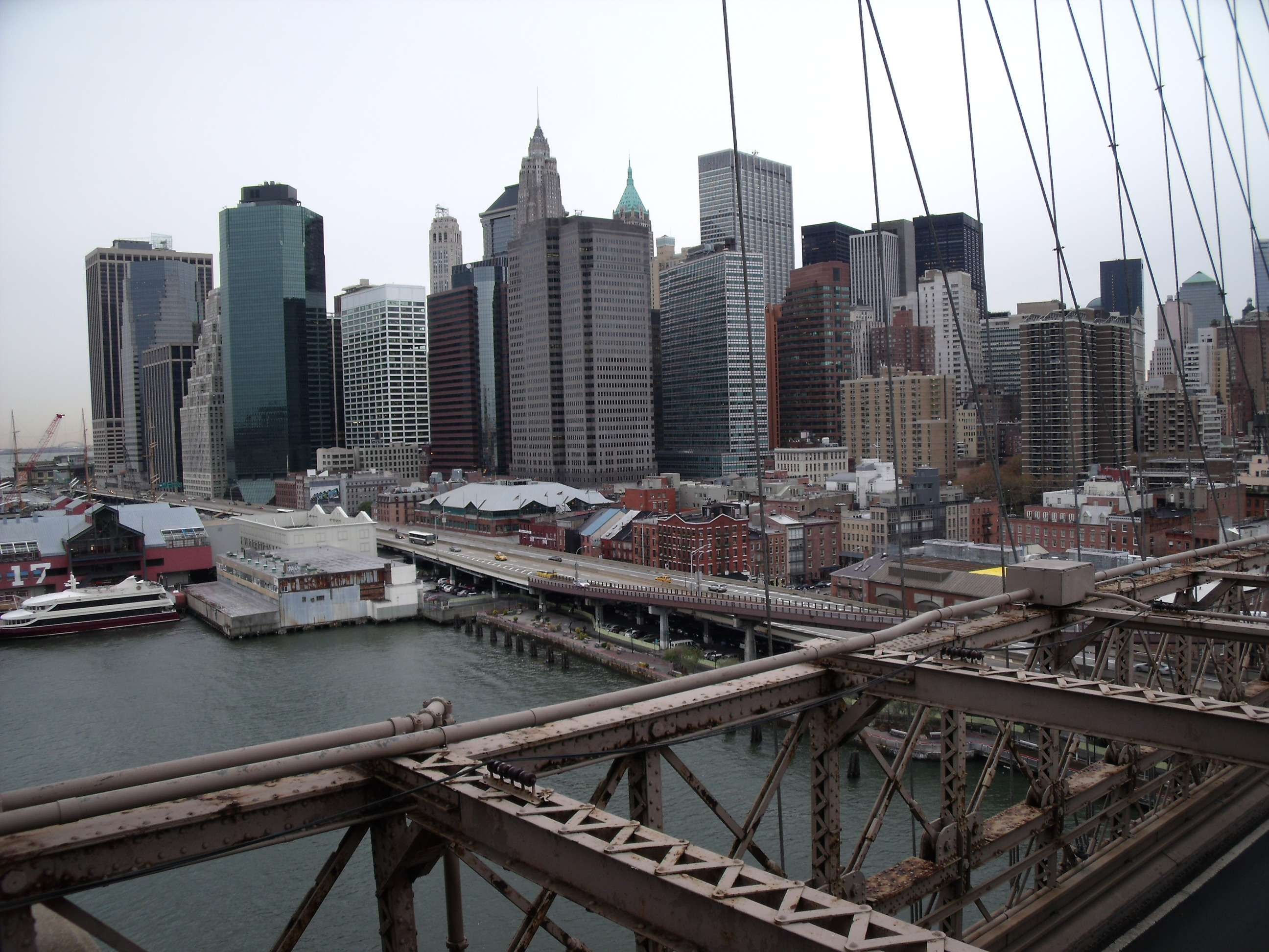 View of Lower Manhattan on Brooklyn Bridge